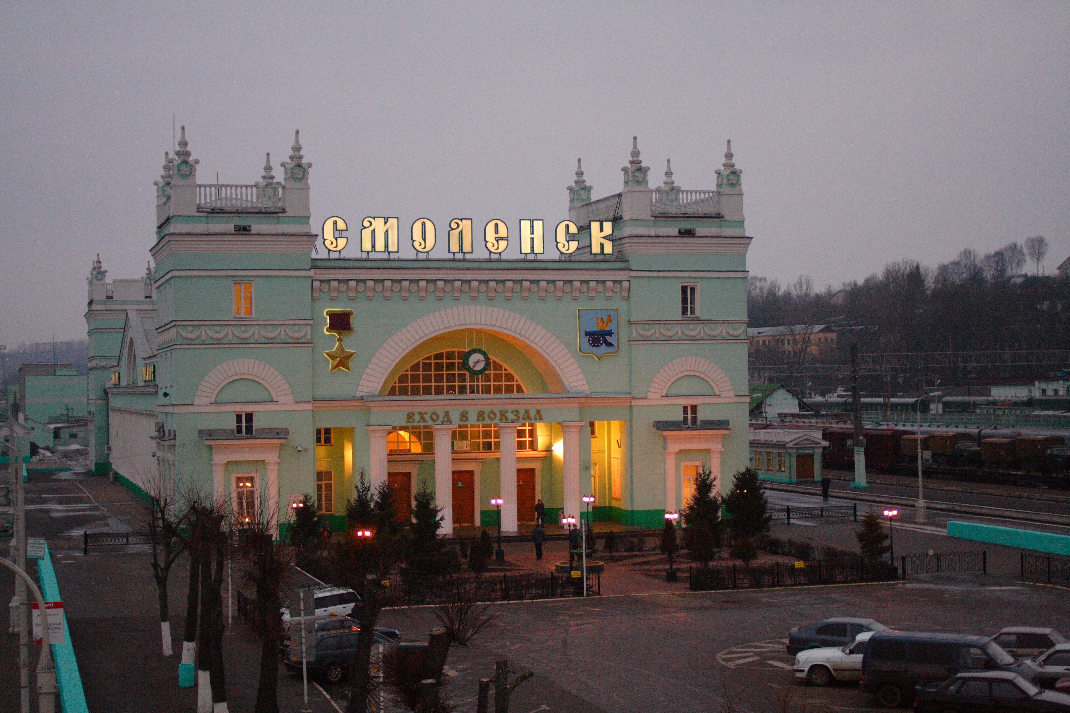 Train station in Smolensk. View from footbridge.